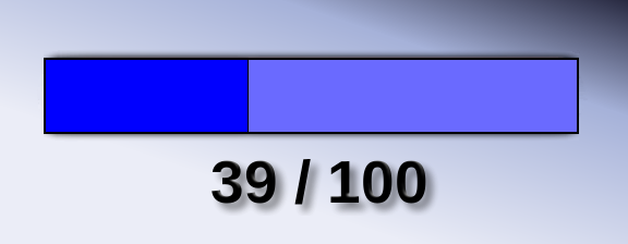 A mana bar or magic bar, used to keep track of a character's magic points (MP) in a video game.